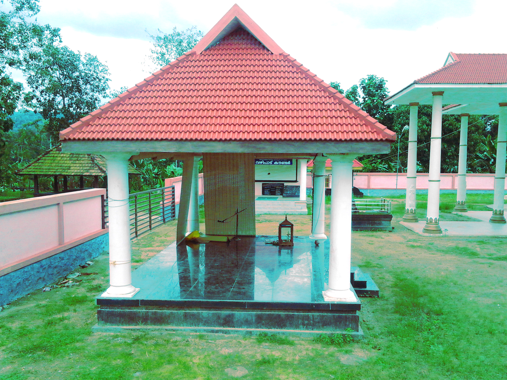 Thalavoor Thrikkonnamarkodu Durga Devi Temple Navarathri Mandapam